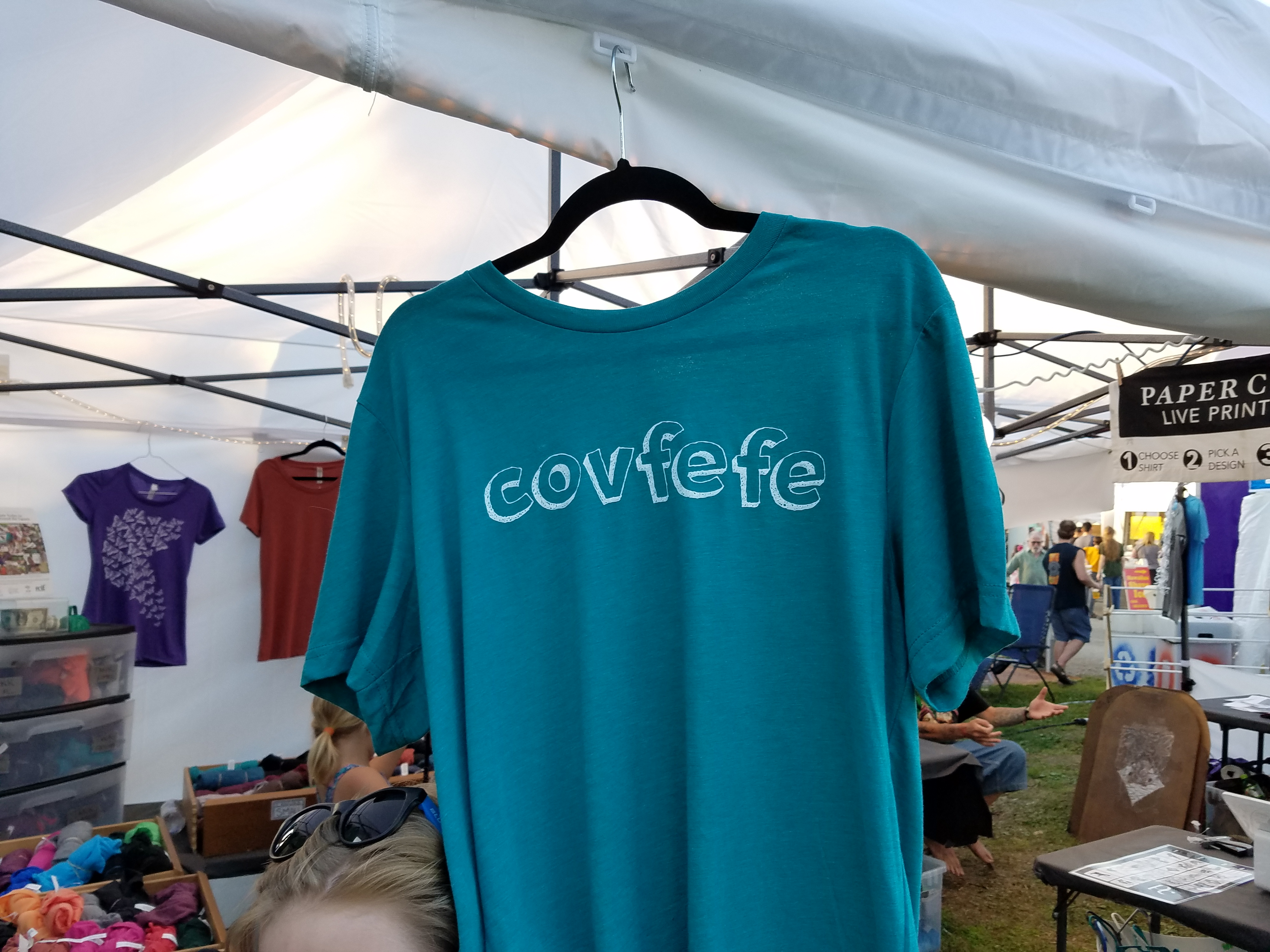 Hocking College Nelsonville, Ohio